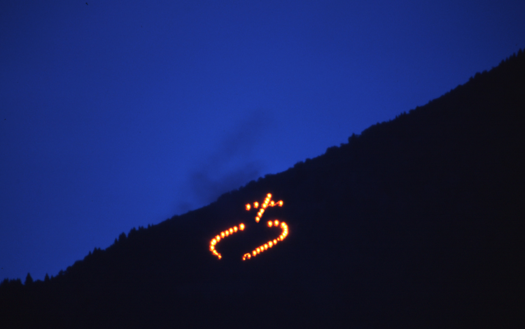 Herz Jesu Fires on Ifinger Mountain - South Tyrol